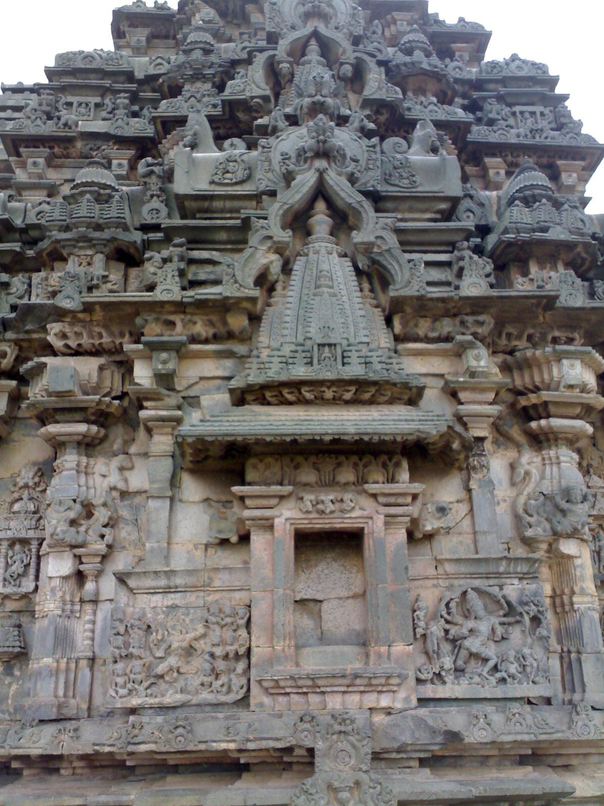 Lakkundi Temple Source nad Author: Manjunath Doddamani, Gajendragad / Hubli, Karnataka(North), India